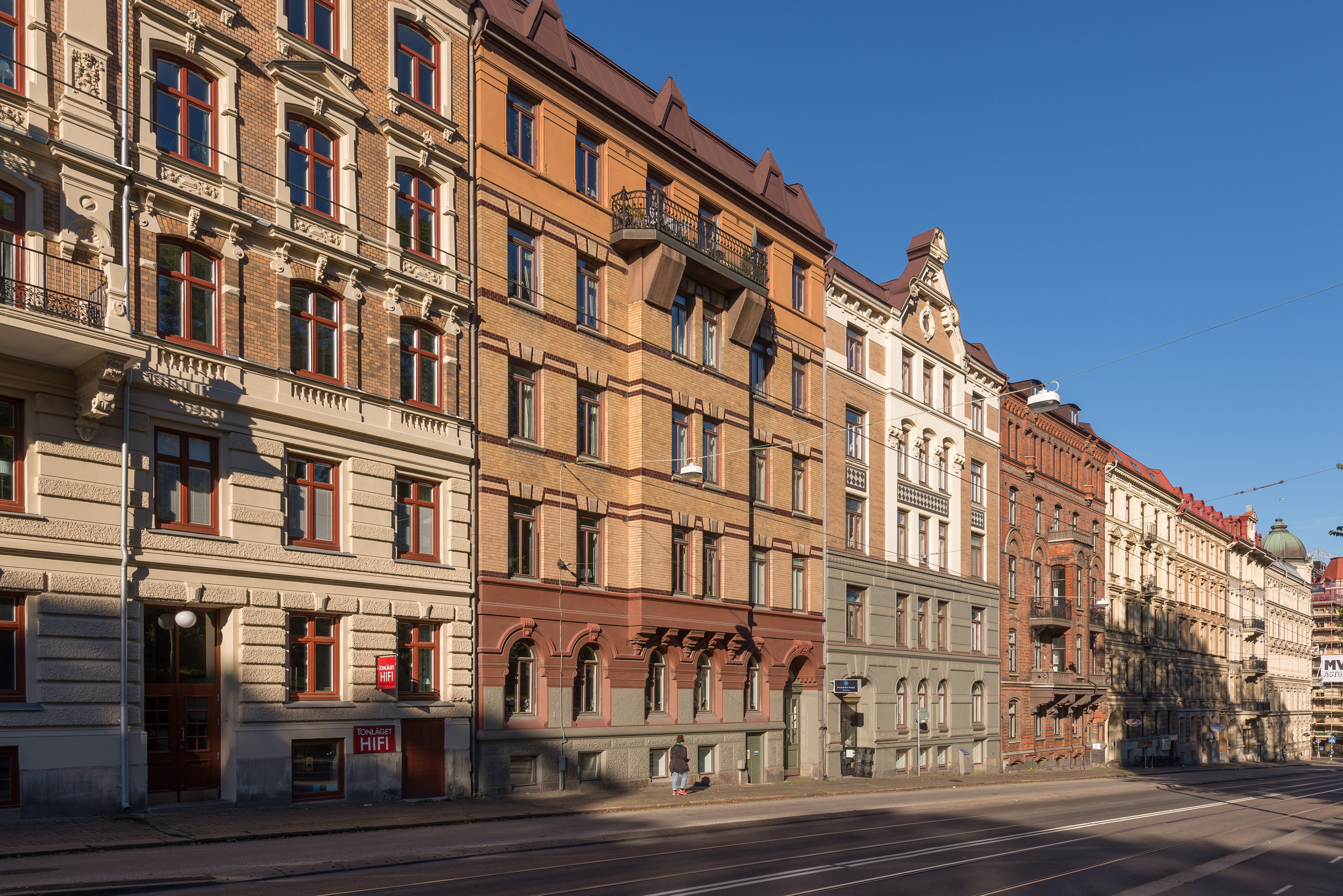 Buildings at the street Aschebergsgatan (number 1-15) in Gothenburg, Sweden.